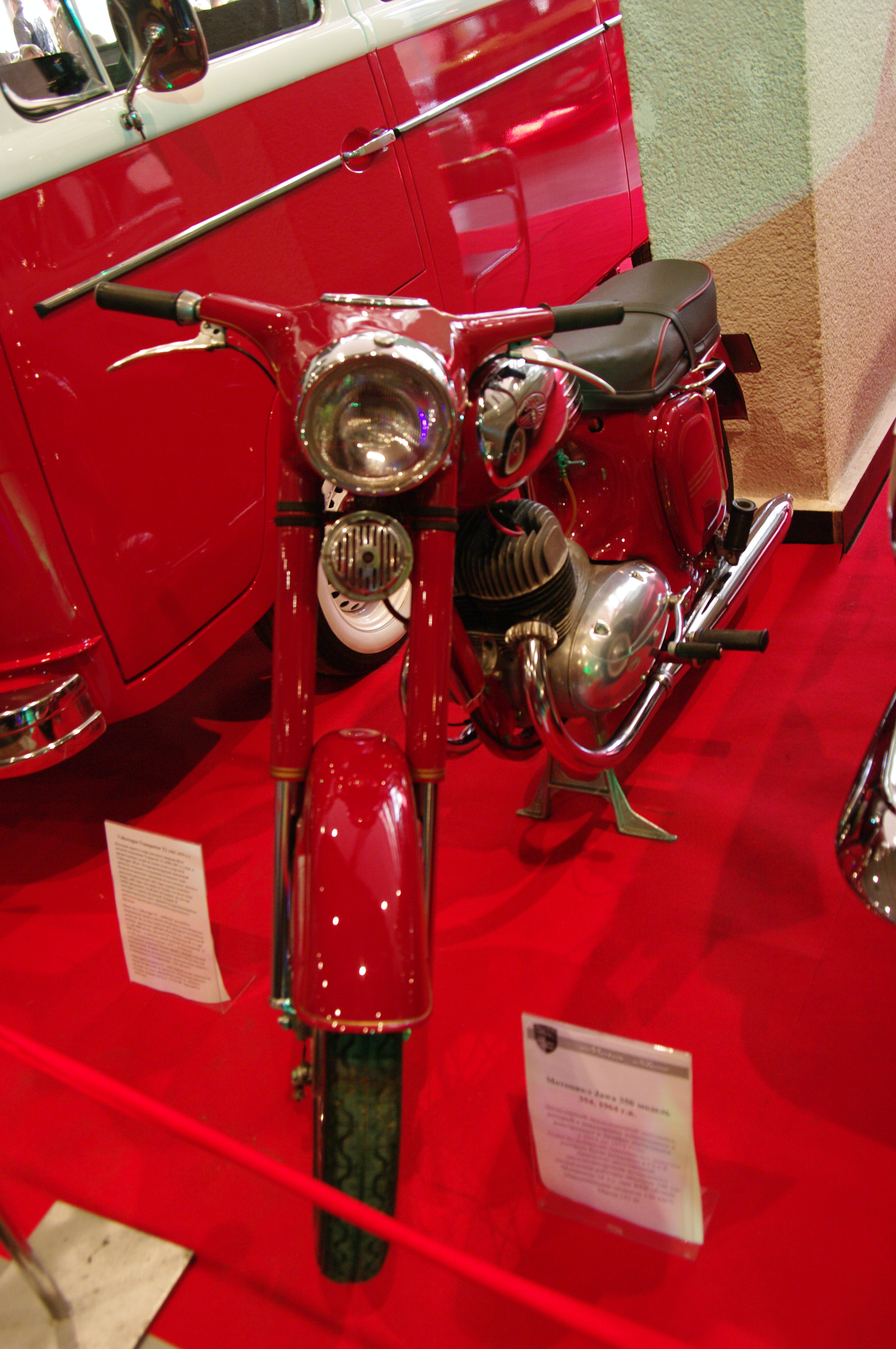 Kyiv Retro&Exotica 2013 exhibition